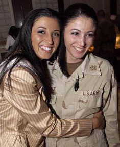 Jaclyn Visits Iraq — Miss New York USA Jaclyn Stapp hugs her sister Army Capt. Julia Nesheiwat during lunch at the Coalition Provisional Authority headquarters dining facility in Baghdad, Iraq, March 17, 2004. Nesheiwat is deployed in Iraq, and her sister arrived here to visit the troops deployed in Iraq.